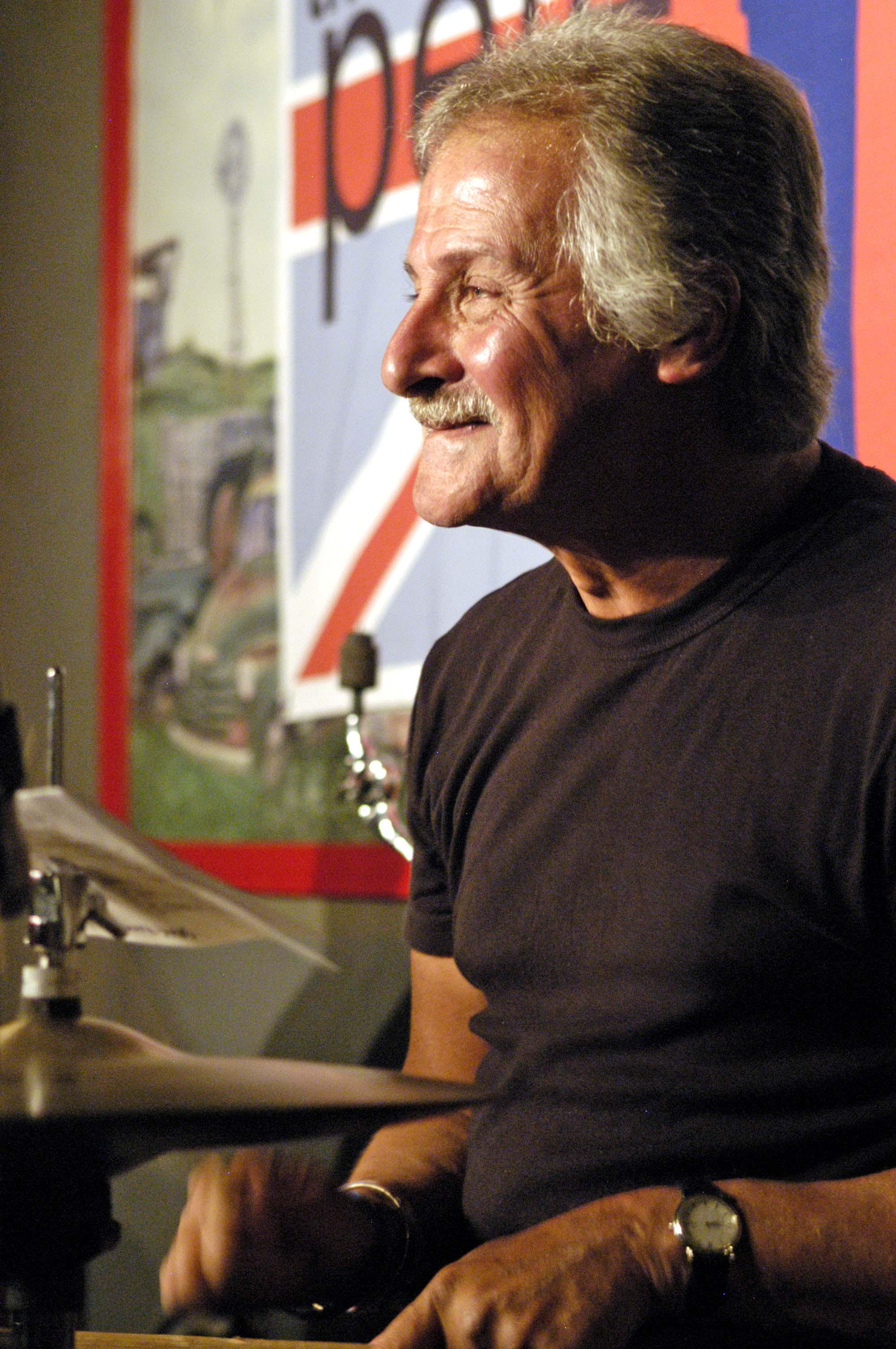 Original Beatles drummer Pete Best performing in Maryland in 2006